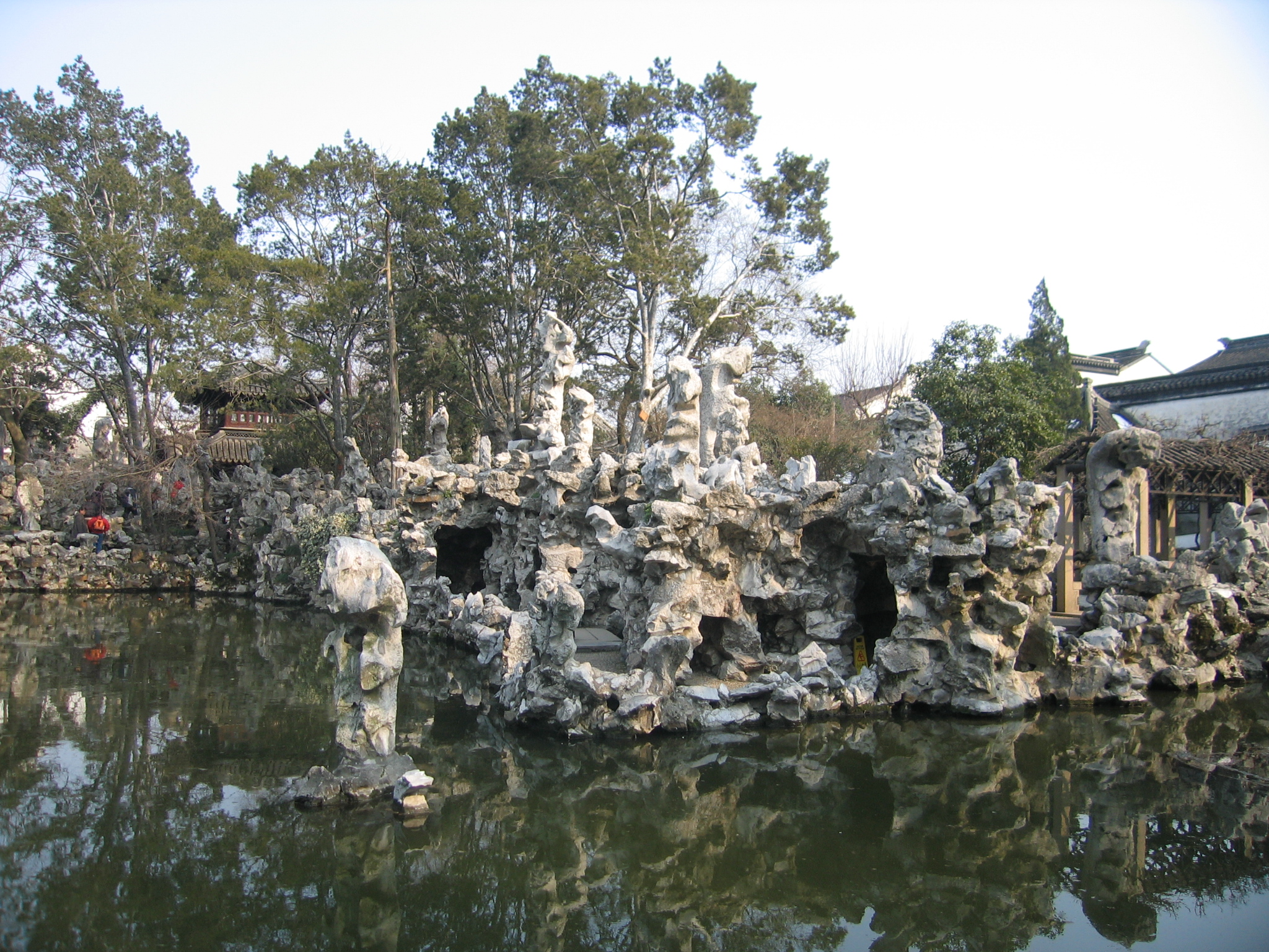 Lion Forest Garden is regarded as one of the top four classical Chinese gardens of Suzhou.